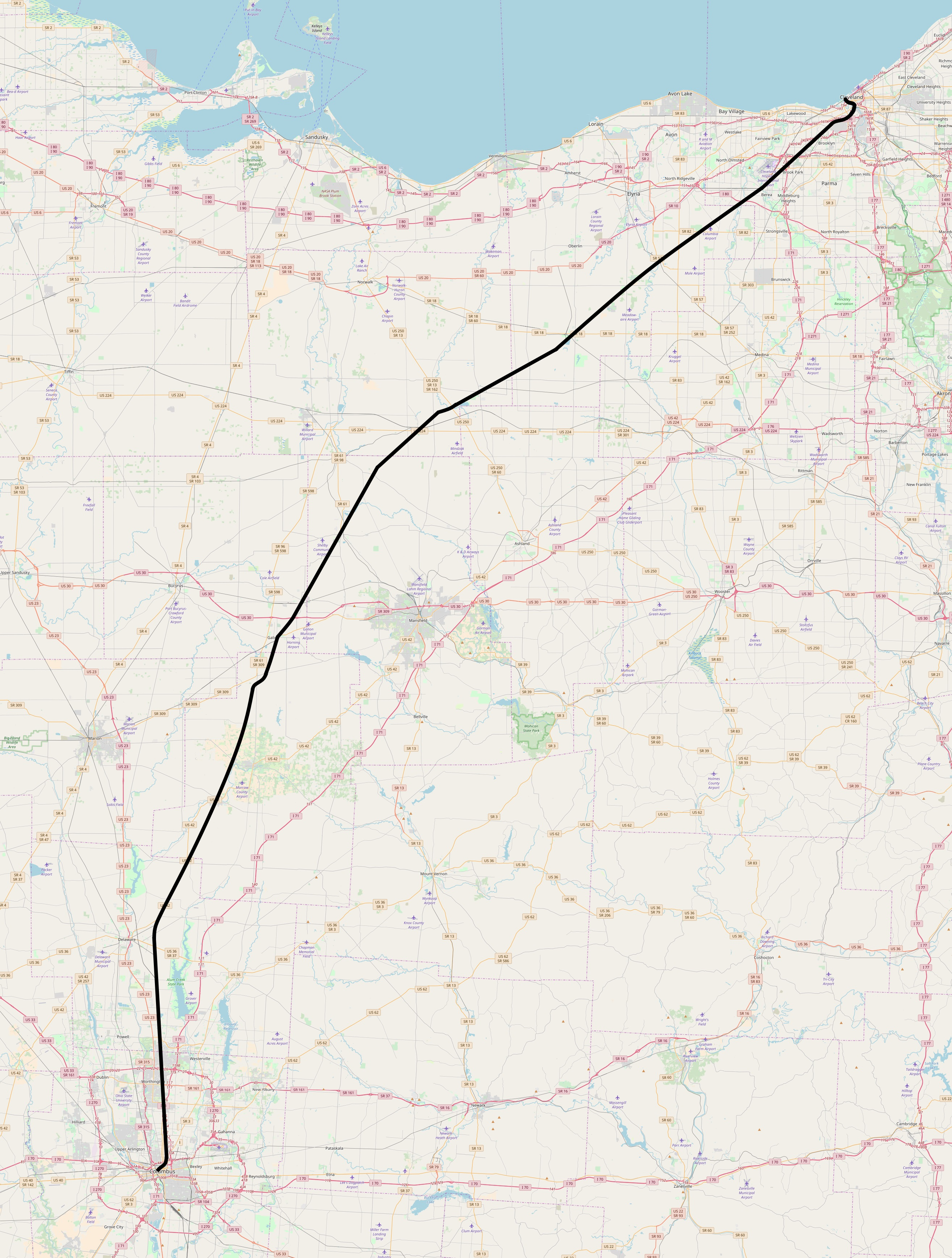 Map of the main line of the Cleveland, Columbus and Cincinnati Railroad in the U.S. state of Ohio in the United States. This map indicates the route as completed in 1851. Branch lines and extension of the main line to Cincinnati would be accomplished by the railroad's successor, the Cleveland, Columbus, Cincinnati and Indianapolis Railway. This map of Ohio, U.S. was created from OpenStreetMap project data, collected by the community. This map may be incomplete, and may contain errors. Don't rely solely on it for navigation.